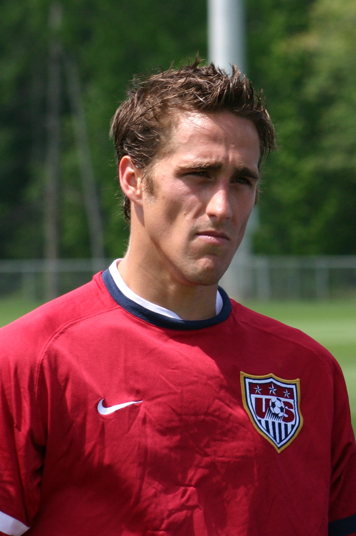 Josh Wolff during USMNT practice session